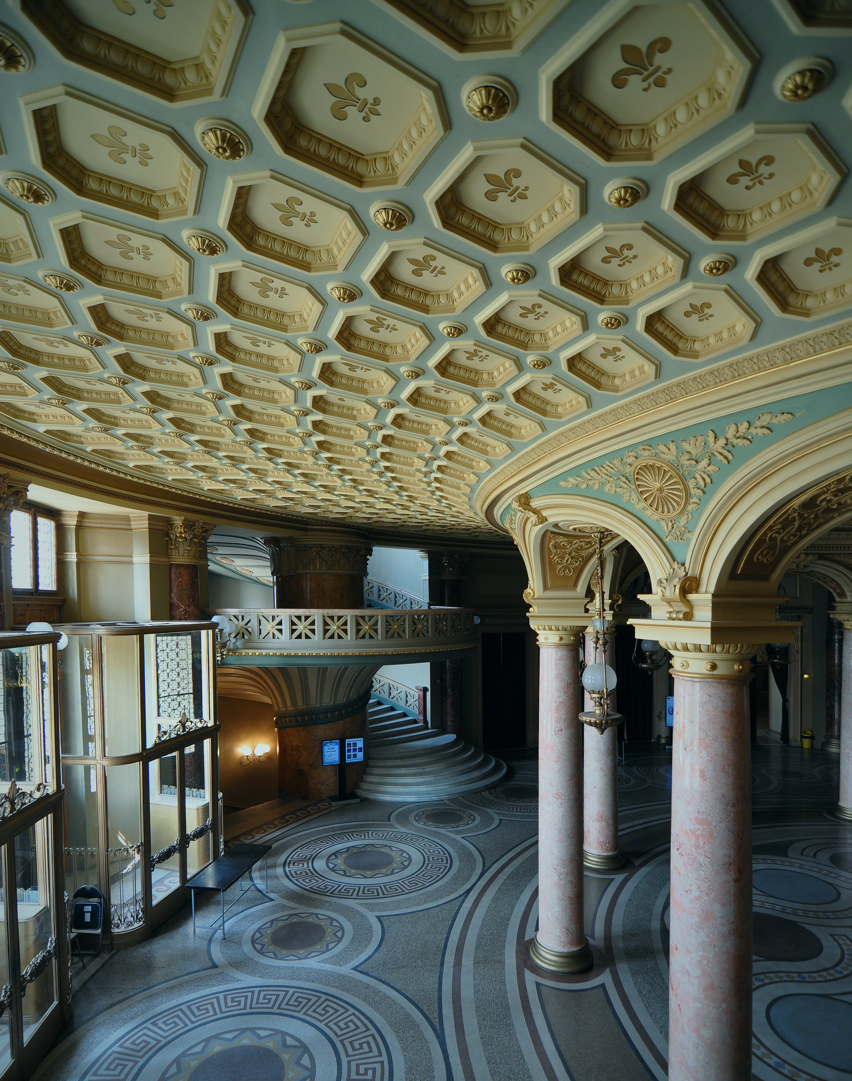 Romanian Athenaeum, inaugurated in 1888, architect Albert Galleron